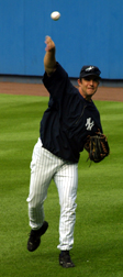 Mike Mussina